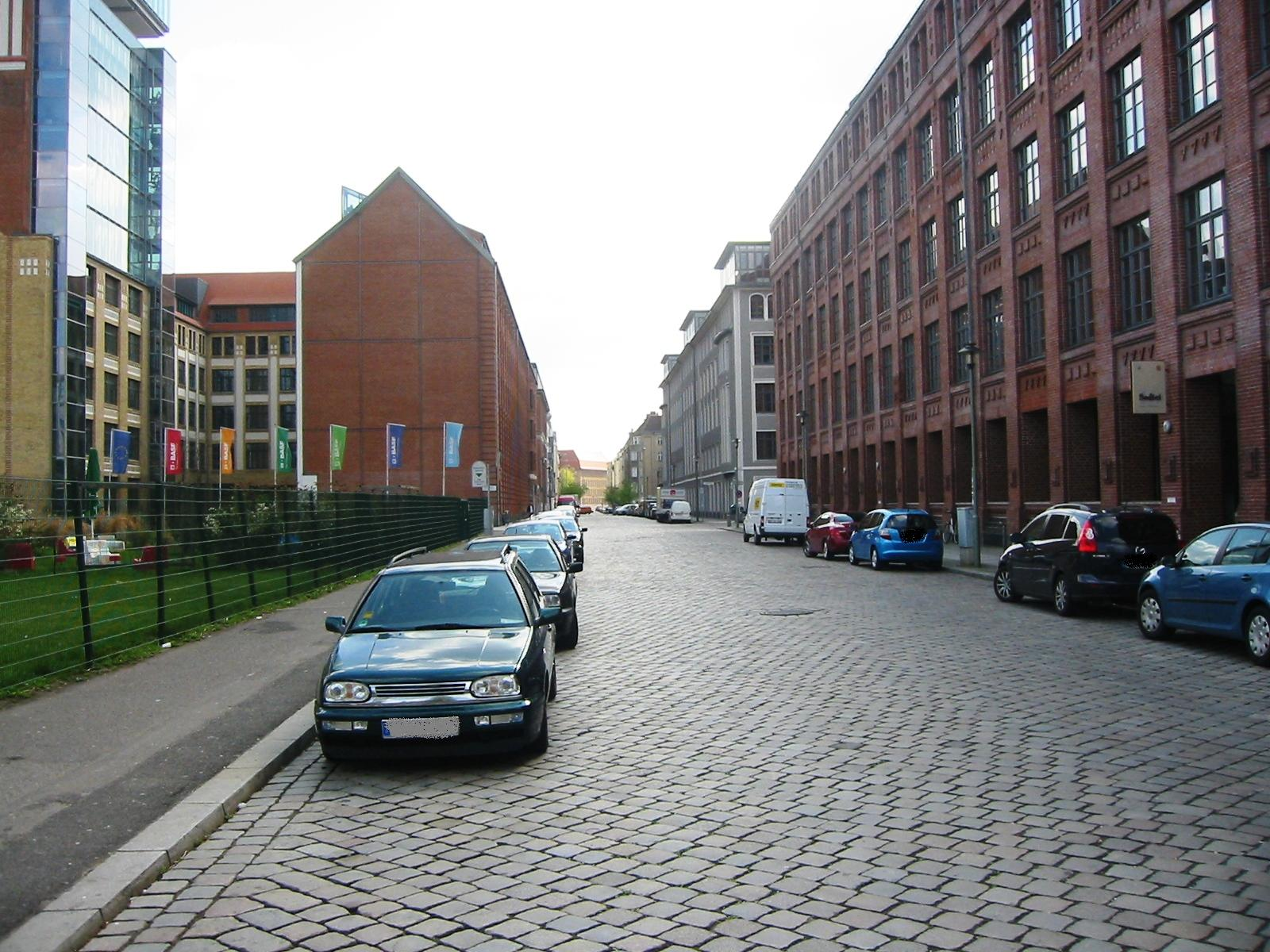 Berlin-Friedrichshain Rotherstraße